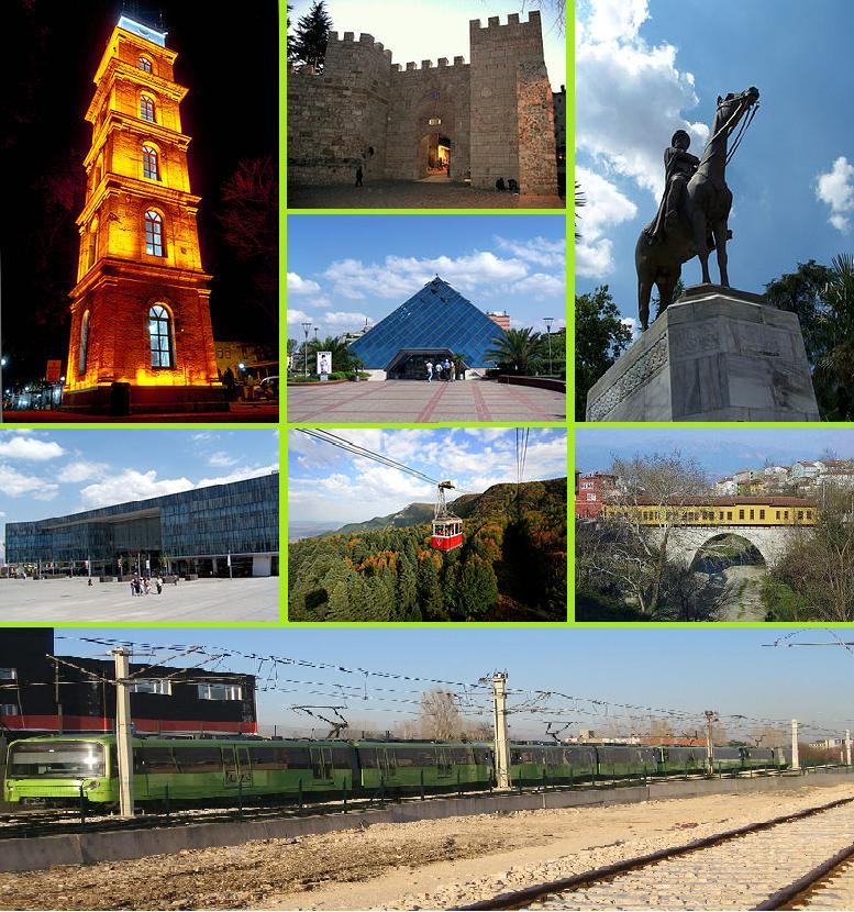 City of Bursa, Turkey